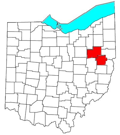 Locator map of the Canton-Massillon Metropolitan Statistical Area in the northeastern part of the U.S. state of Ohio.